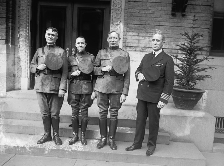 John T. Axton in 1921